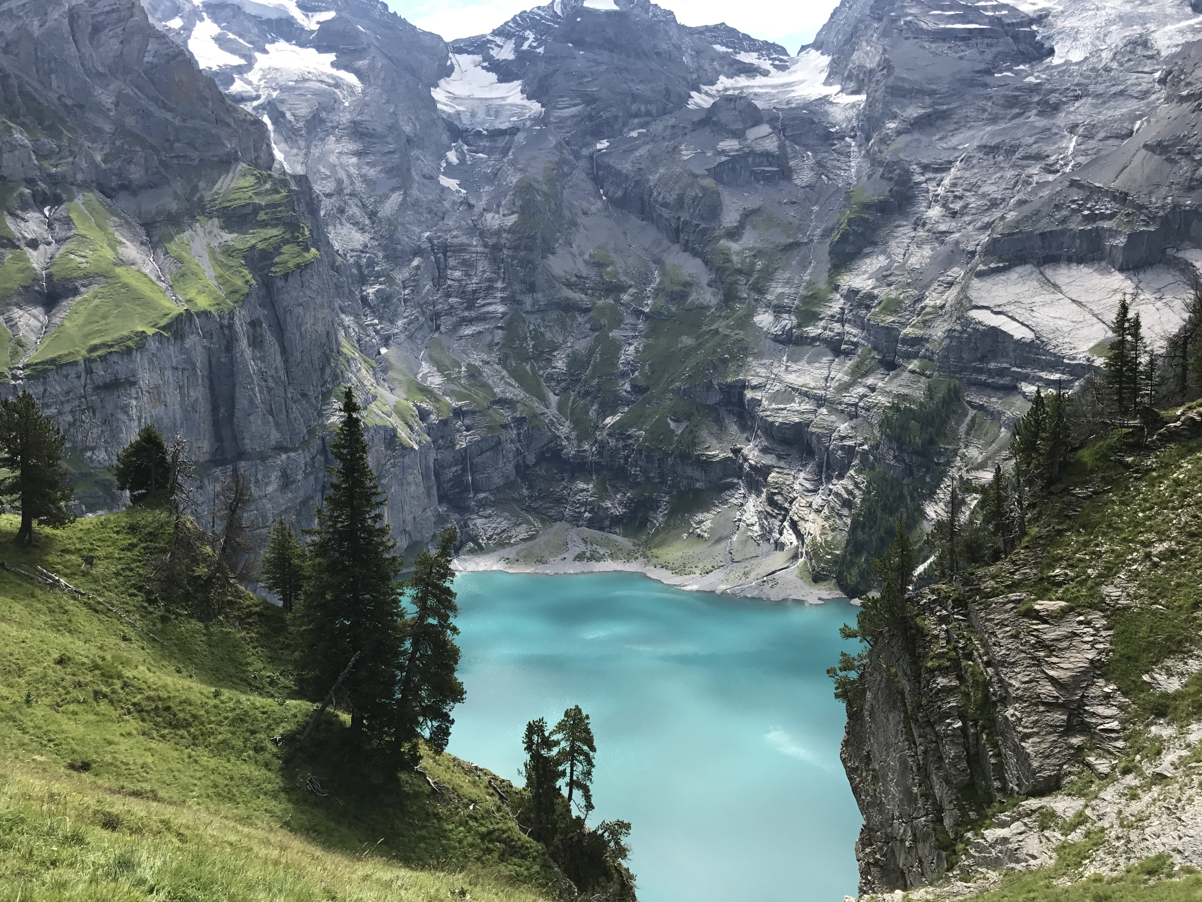 kandersteg, montain with a lake